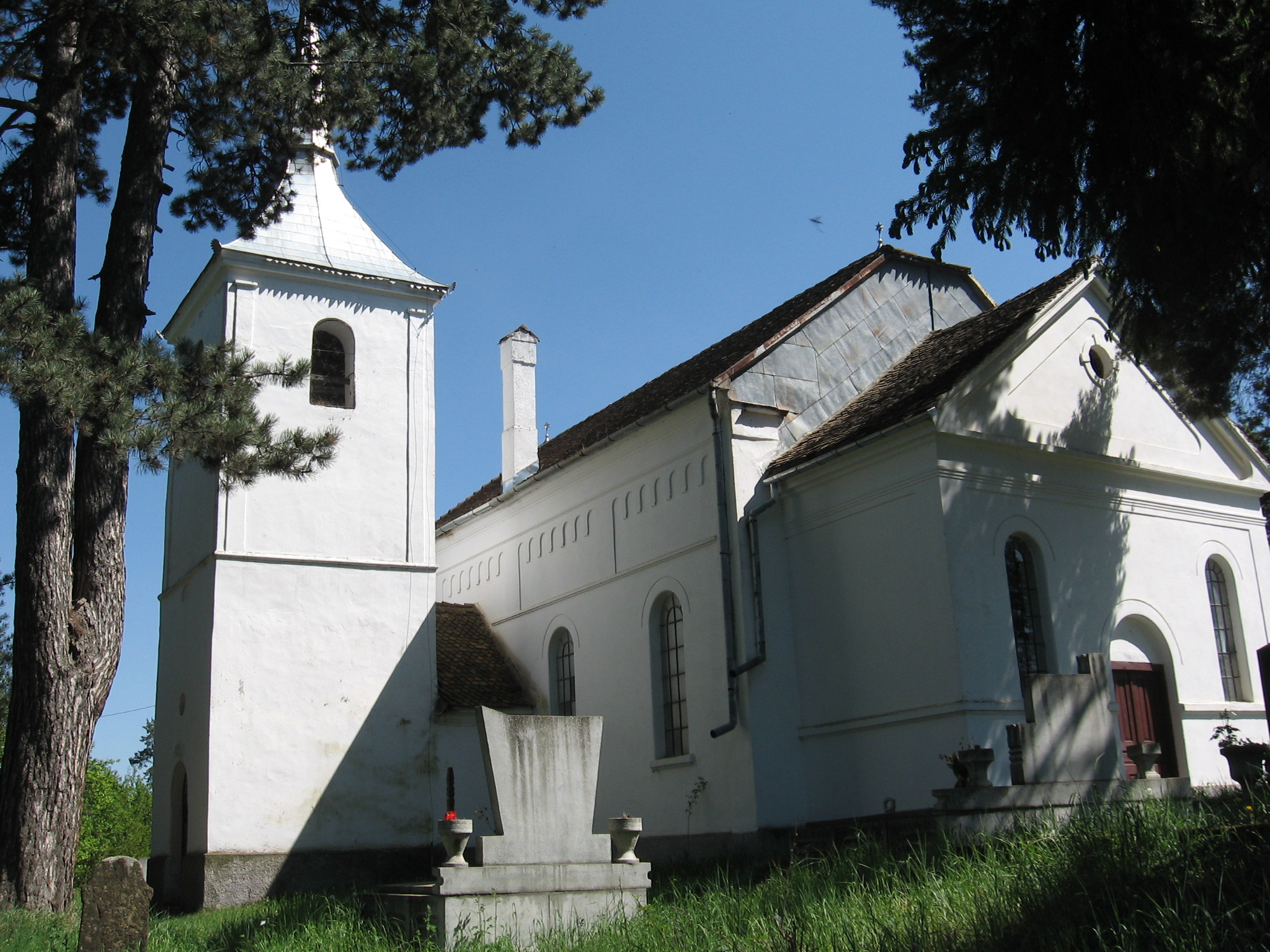 Covasna County, Valea Crişului, Unitarian church